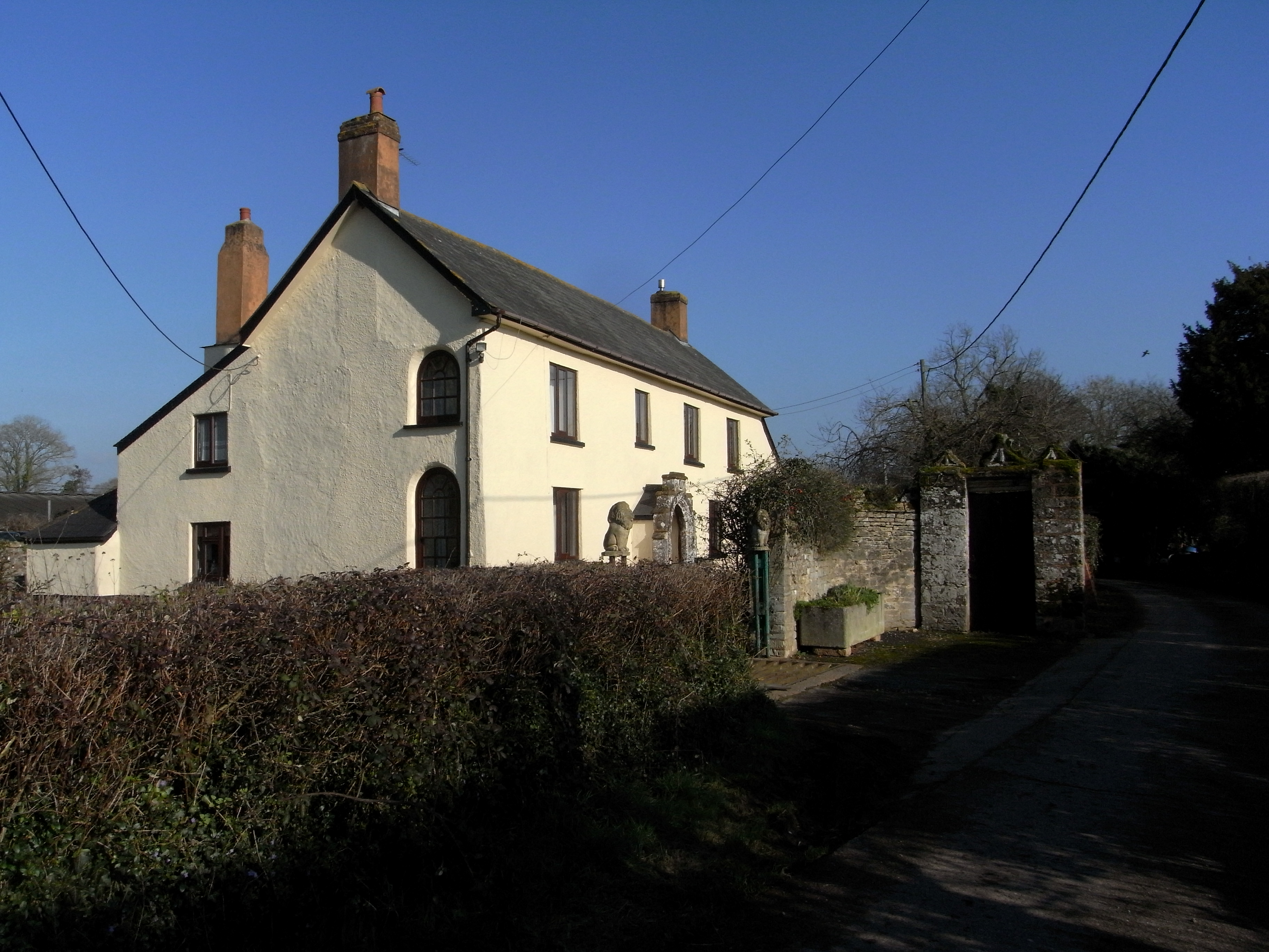 Moorhayes Farm in the parish of Cullompton, Devon, England. A historic estate, anciently the seat of the Moor family.